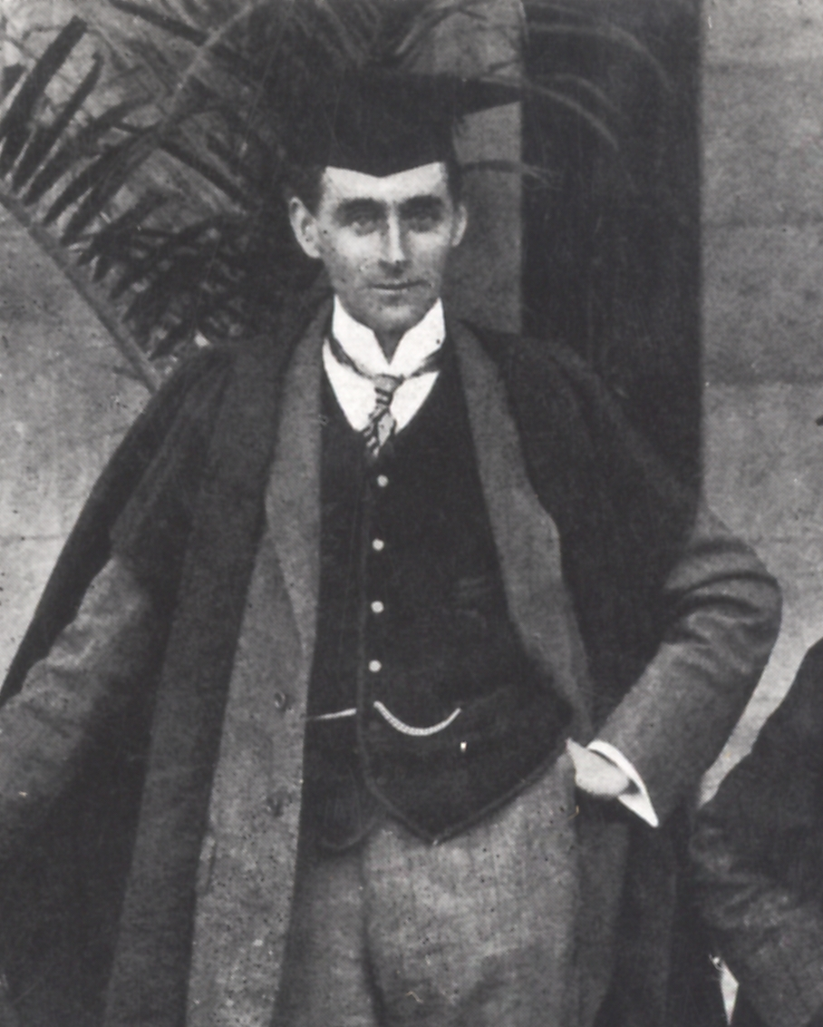 UQFL466 AL P 54 - Professor Alexander James Gibson (engineering), 3 April 1911 at University of Queensland (then at Old Government House)